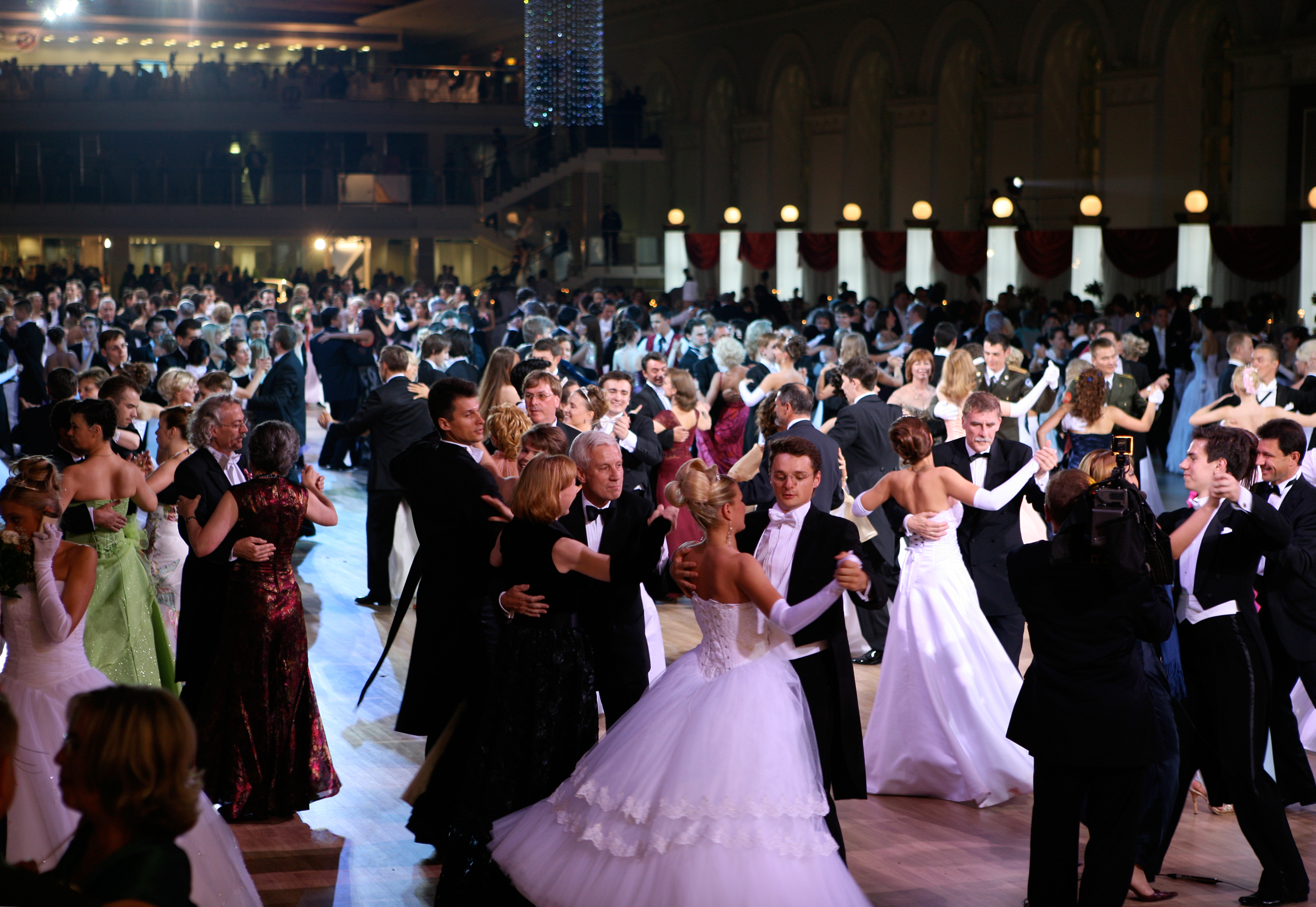 Vienna Ball in Moscow